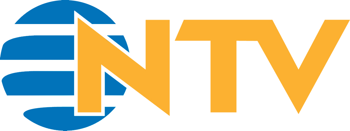 Turkey, NTV, Logo, 2008